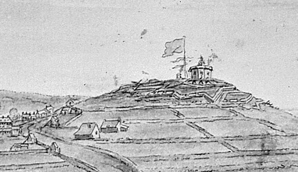 Halifax from Fort Needham, ca. 1780 - inset Halifax Citadel